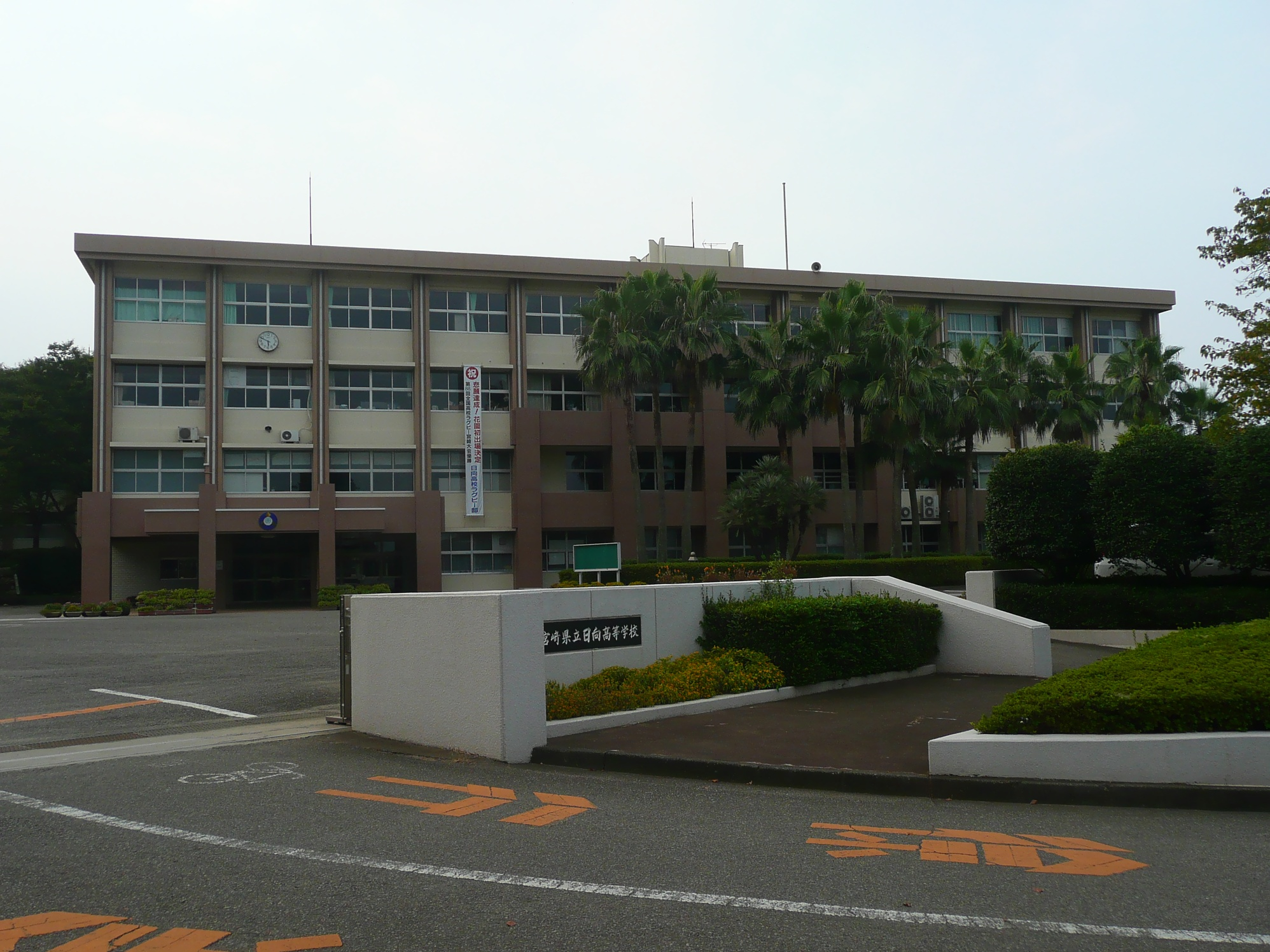 Miyazaki Prefectural Hyuga High School Entrance